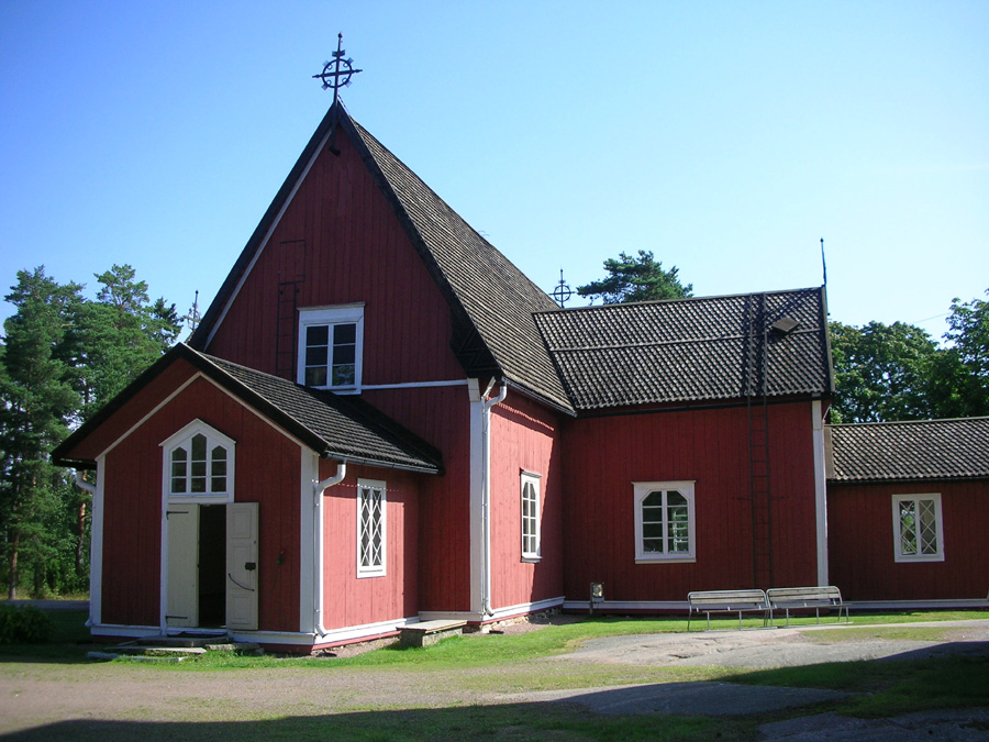 Kustavi church, Finland